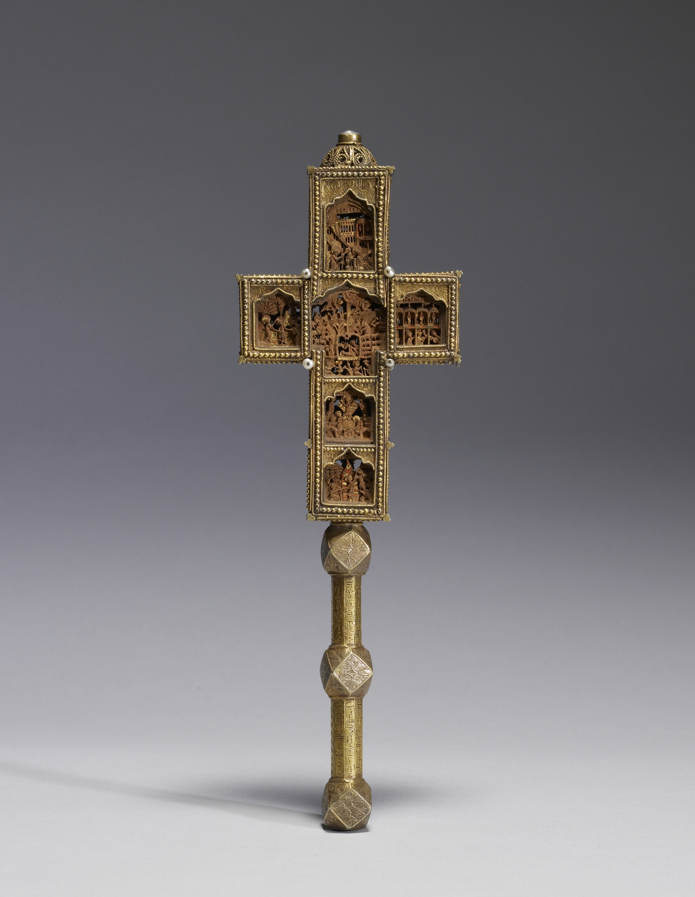 The Georgian inscription on the handle of this cross indicates that its silver frame was commissioned in 1713 by Domentius IV (Damian Bagrationi), Patriarch of the Georgian Orthodox Church from 1705 to 1741, "for the forgiveness of his sins." The woodcarving inside carries Greek inscriptions and was most probably brought to Georgia from Greece. It shows scenes from the life of Christ: the Nativity (center), Annunciation (top), Baptism (left), Presentation in the Temple (right), Transfiguration, and Resurrection (bottom) on one side, and on the other: the Crucifixion, Ascension, Dormition of the Virgin, Entry into Jerusalem, Raising of Lazarus, and Pentecost. This type of cross was used for blessing the faithful during Church ceremonies.